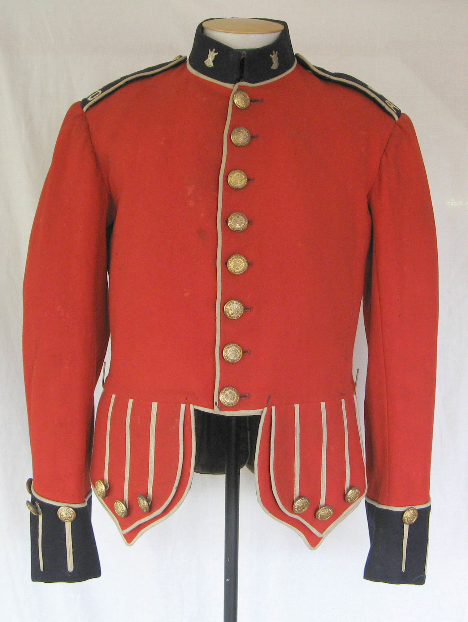 Highland doublet - Auckland Rifle Volunteers- H Coy - Gordon Highlanders, circa 1900 highland doublet; red with white braid